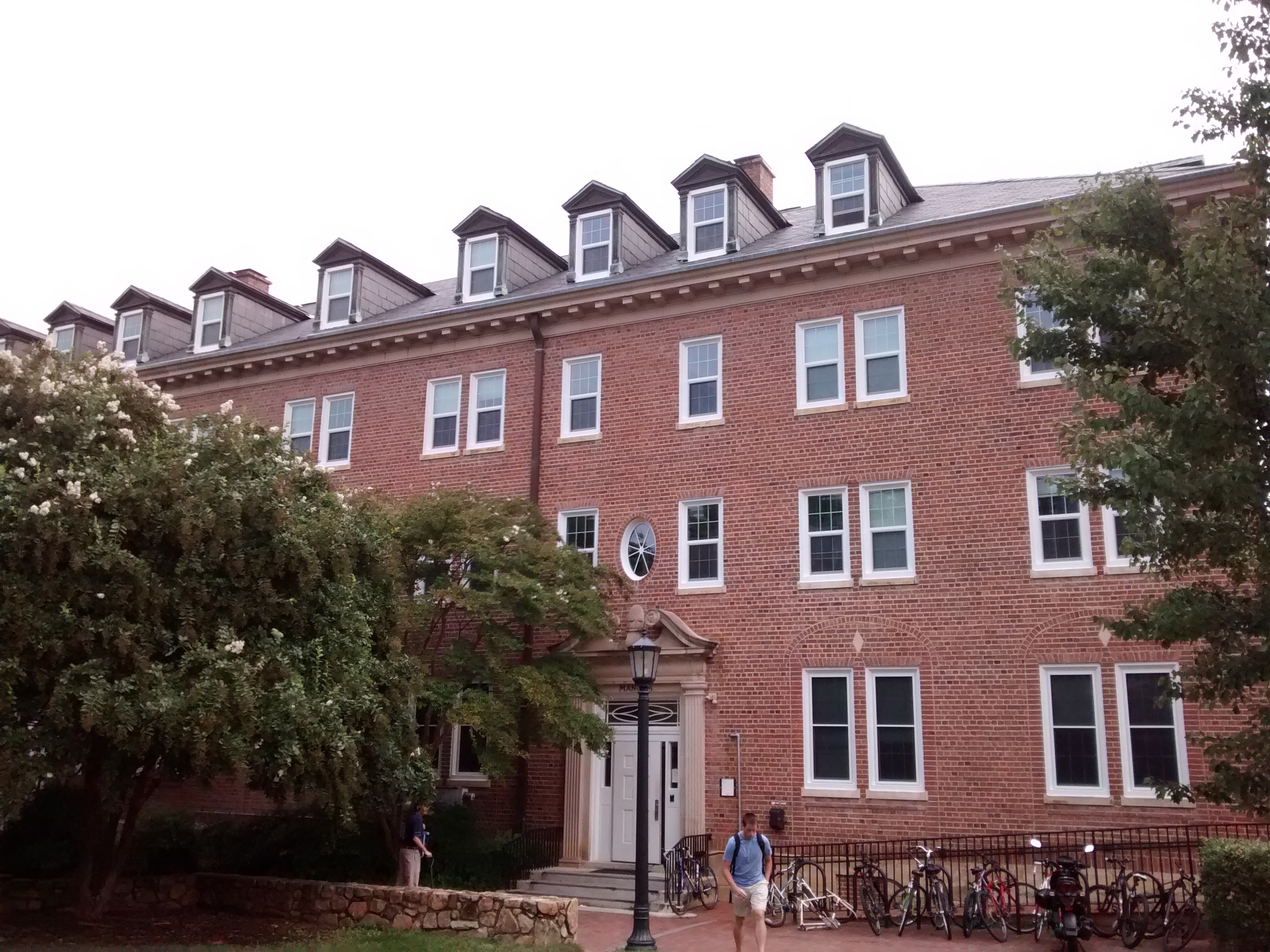 Mangum Residence Hall at the University of North Carolina at Chapel Hill.